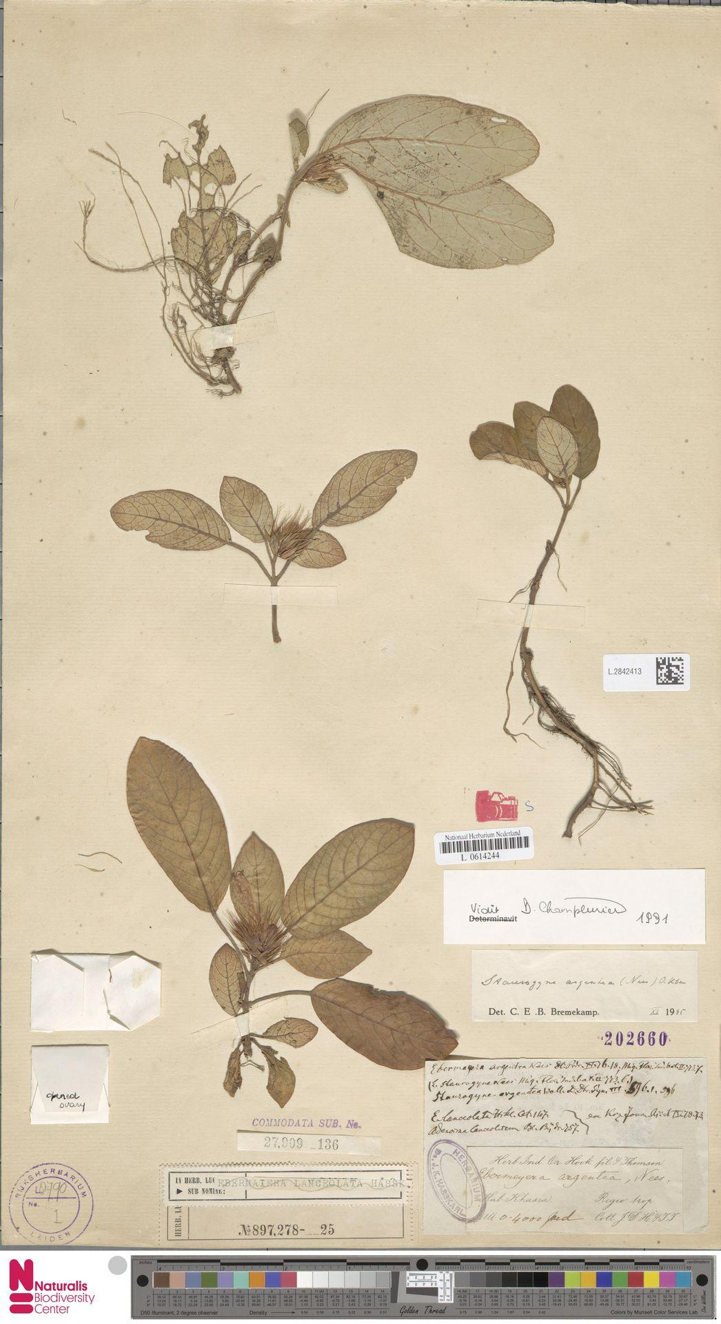 Staurogyne argentea Wall. (type of) - Staurogyne argentea Wall. (species)